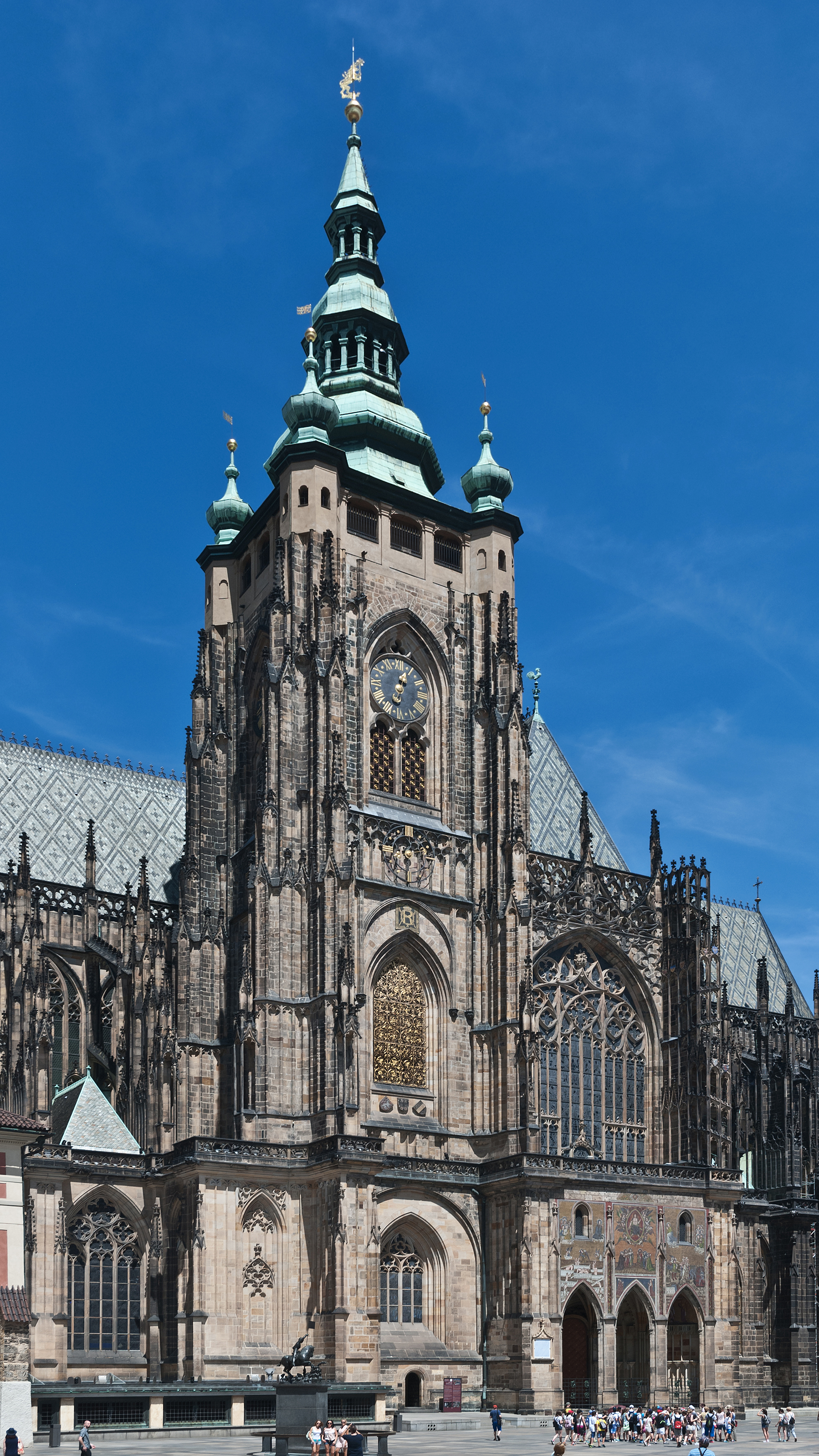 South facade of St. Vitus Cathedral in Prague, south tower